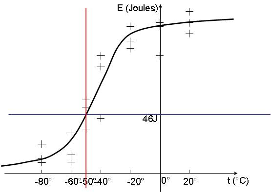 Ductile / fragile transition curve